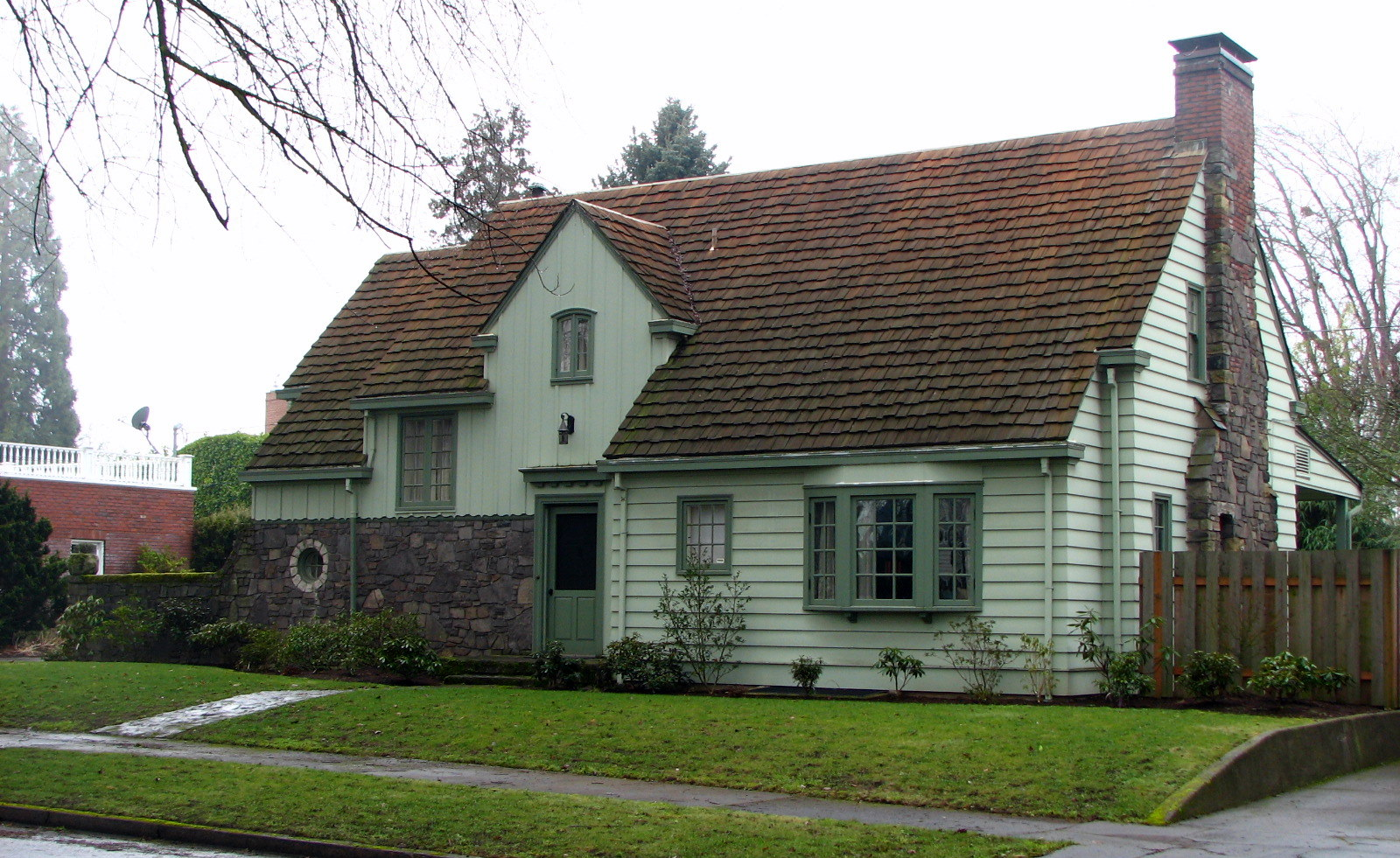 The historic West Coast Woods Model Home (built 1927), located at 7211 North Fowler Avenue in Portland, Oregon, United States, is listed on the US National Register of Historic Places.